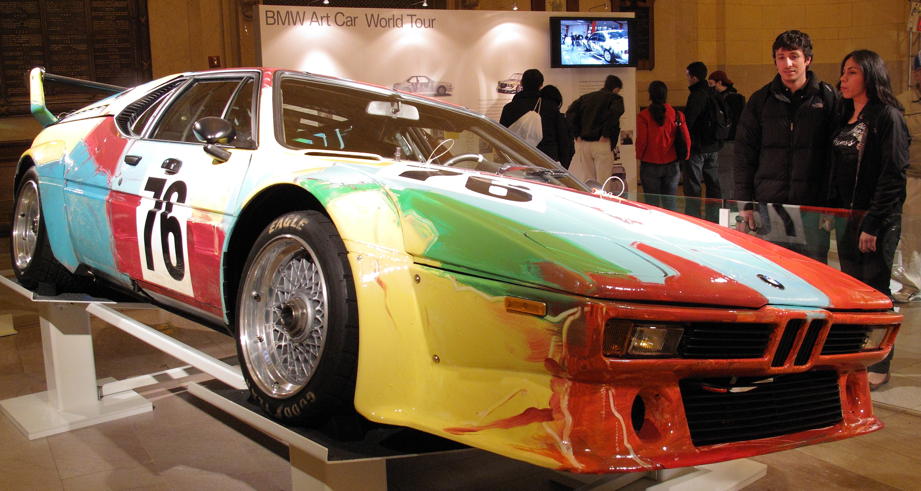 1979 BMW Group 4 M1 painted by Andy Warhol